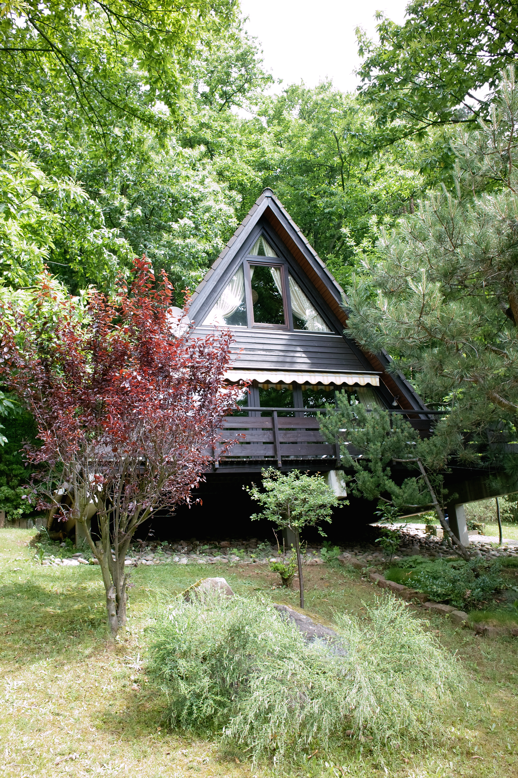 Prefabricated vacation house "Sonneneckchen" (Little Sun Corner), built in the early 1980's, in the vacation village Sonnenberg, Leinsweiler, Germany.